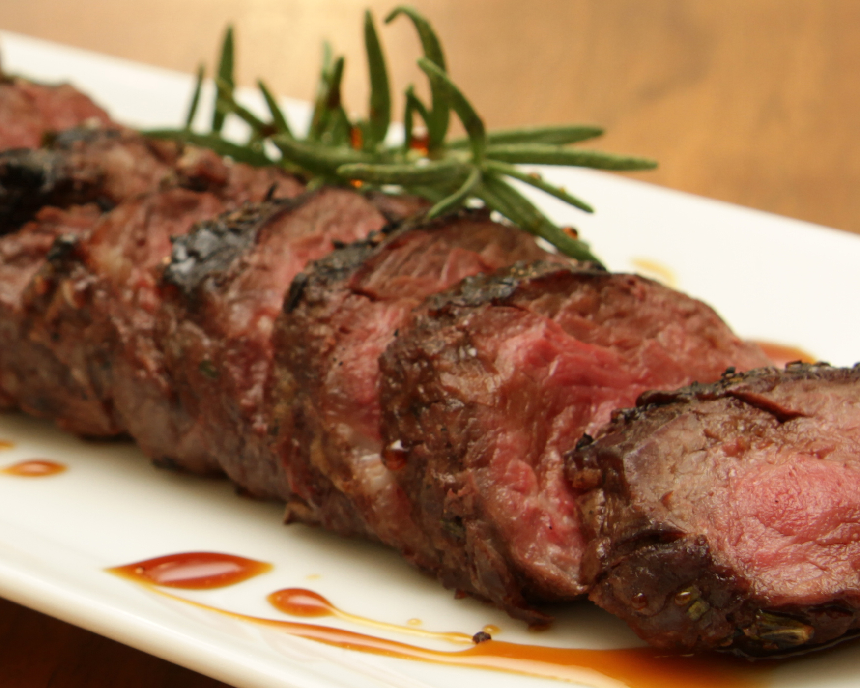 Skirt Steak at Martiniburger in Tokyo, Japan